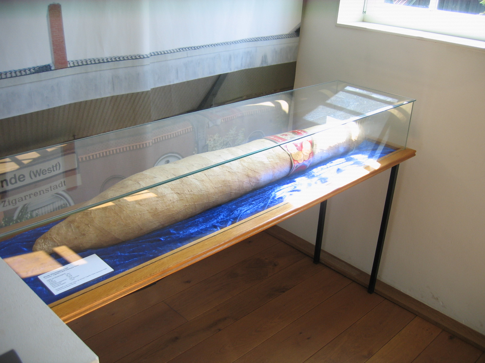 This cigar claims to be the world's largest cigar in the German Tobacco and Cigar Museum in Bünde, District of Herford, North Rhine-Westphalia, Germany.